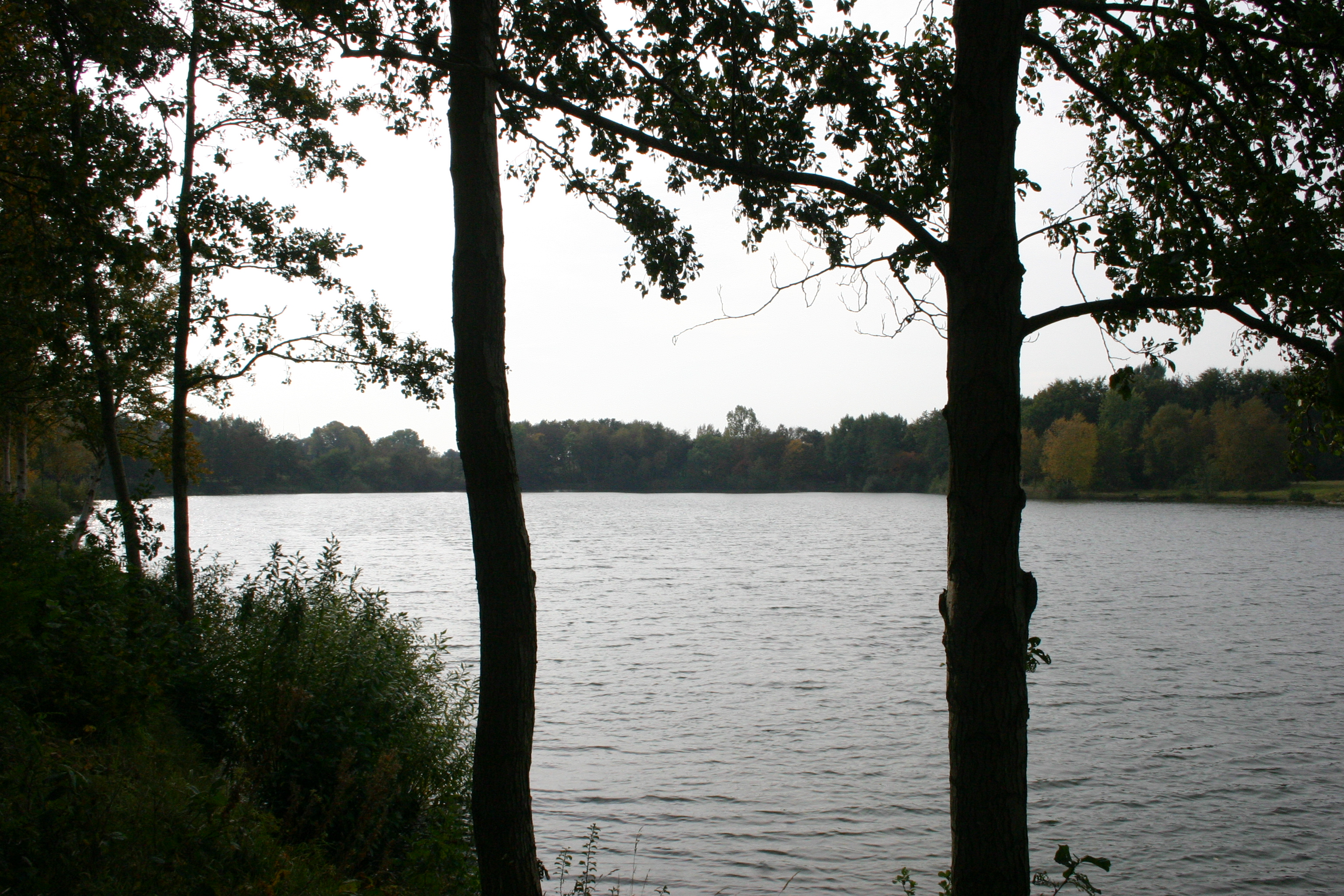 Flooded quarry in Berumbur, East Frisia, Germany